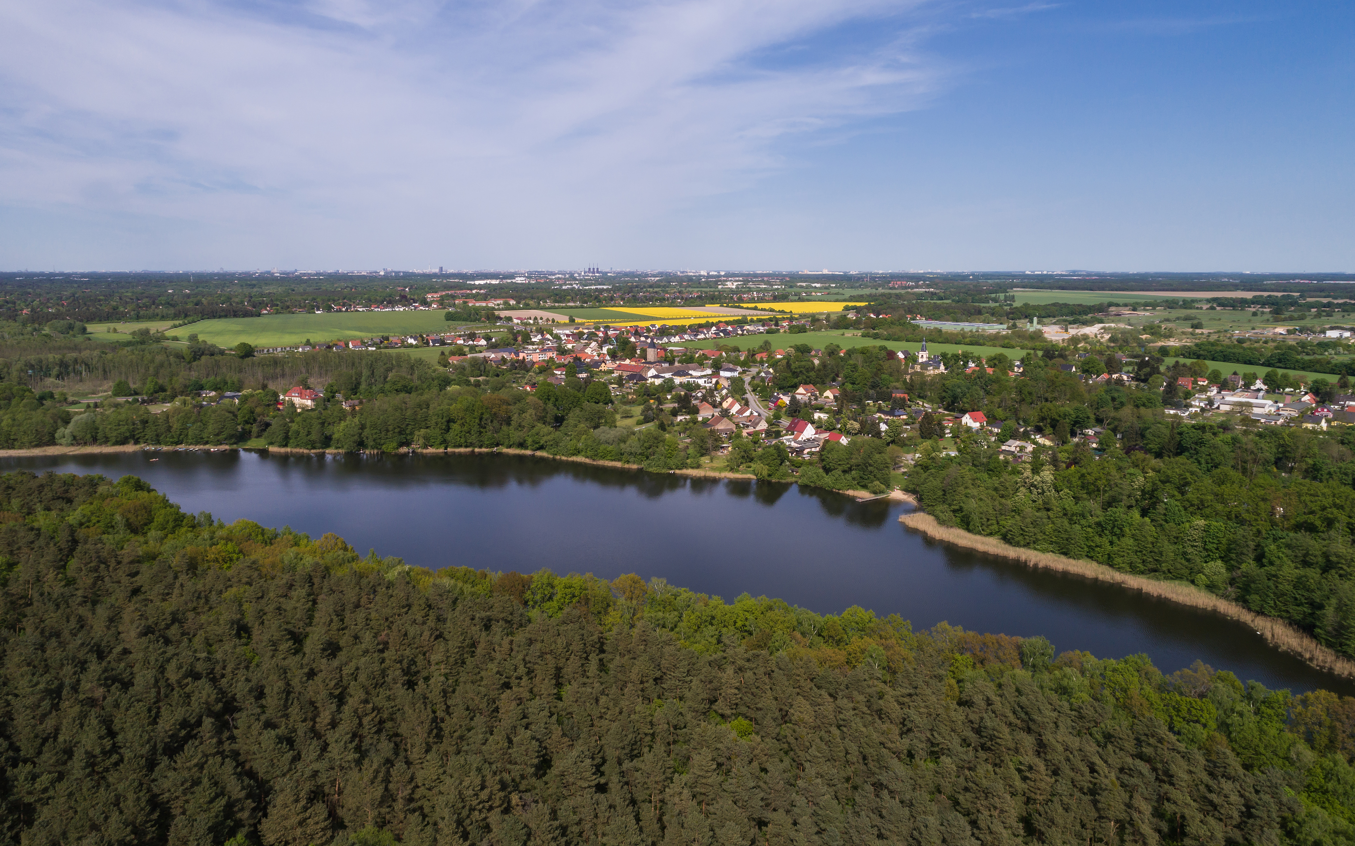 Aerial photo of lake Güterfelde in Stahnsdorf near Berlin